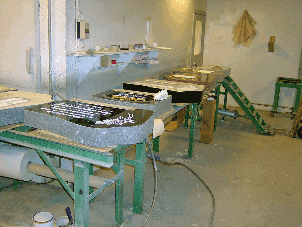 topstones